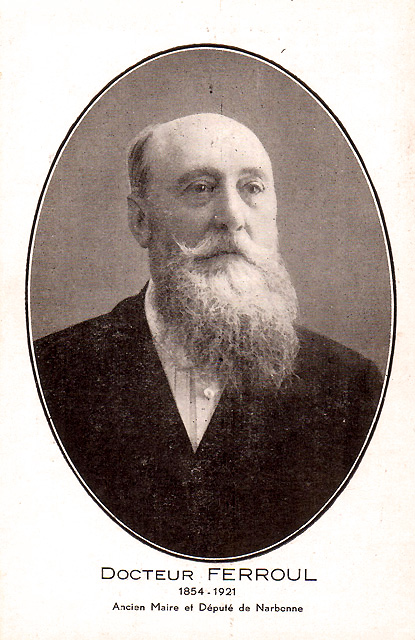 Ernest Ferroul